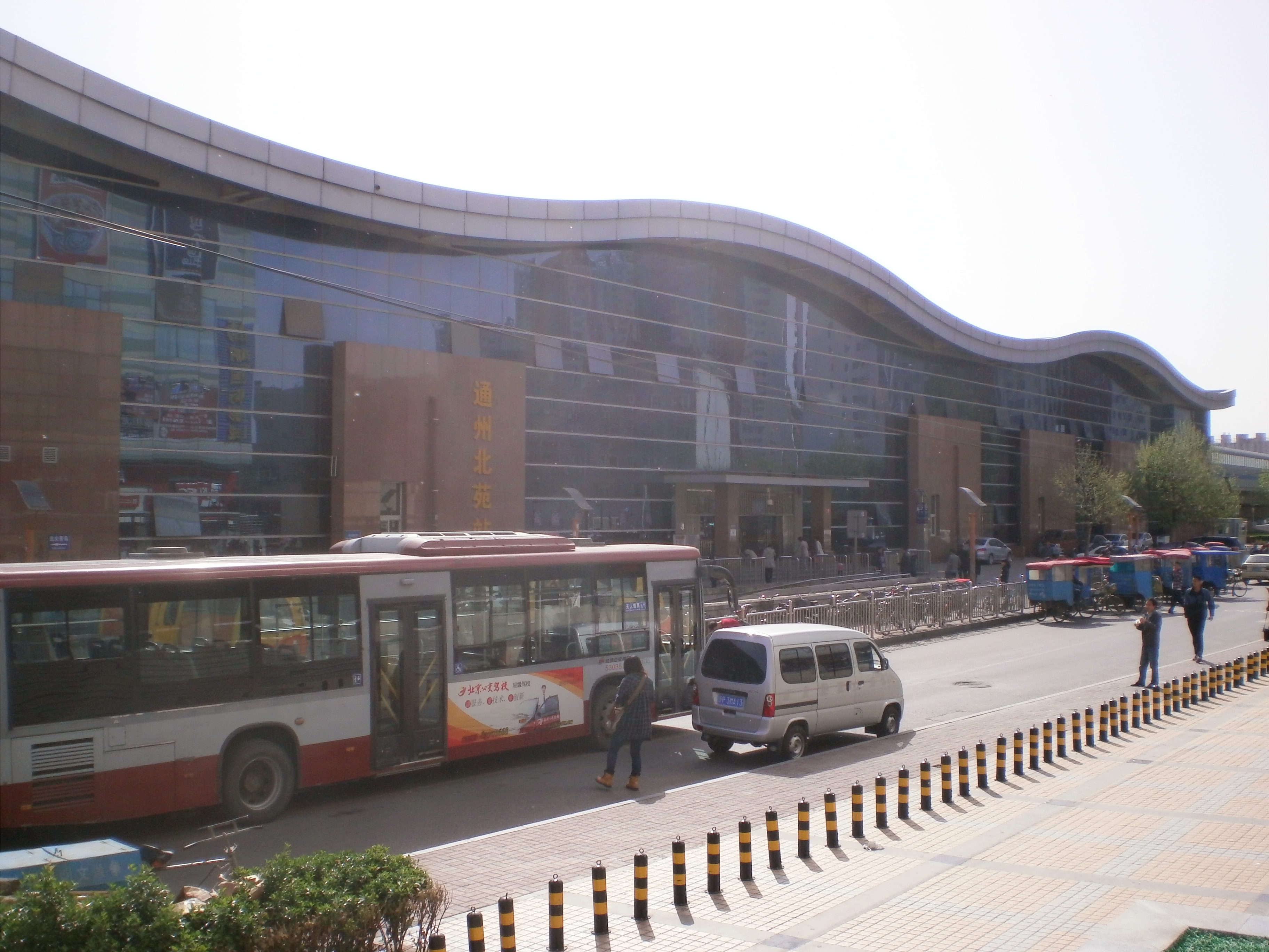 Beijing subway, Tongzhou Beiyuan station